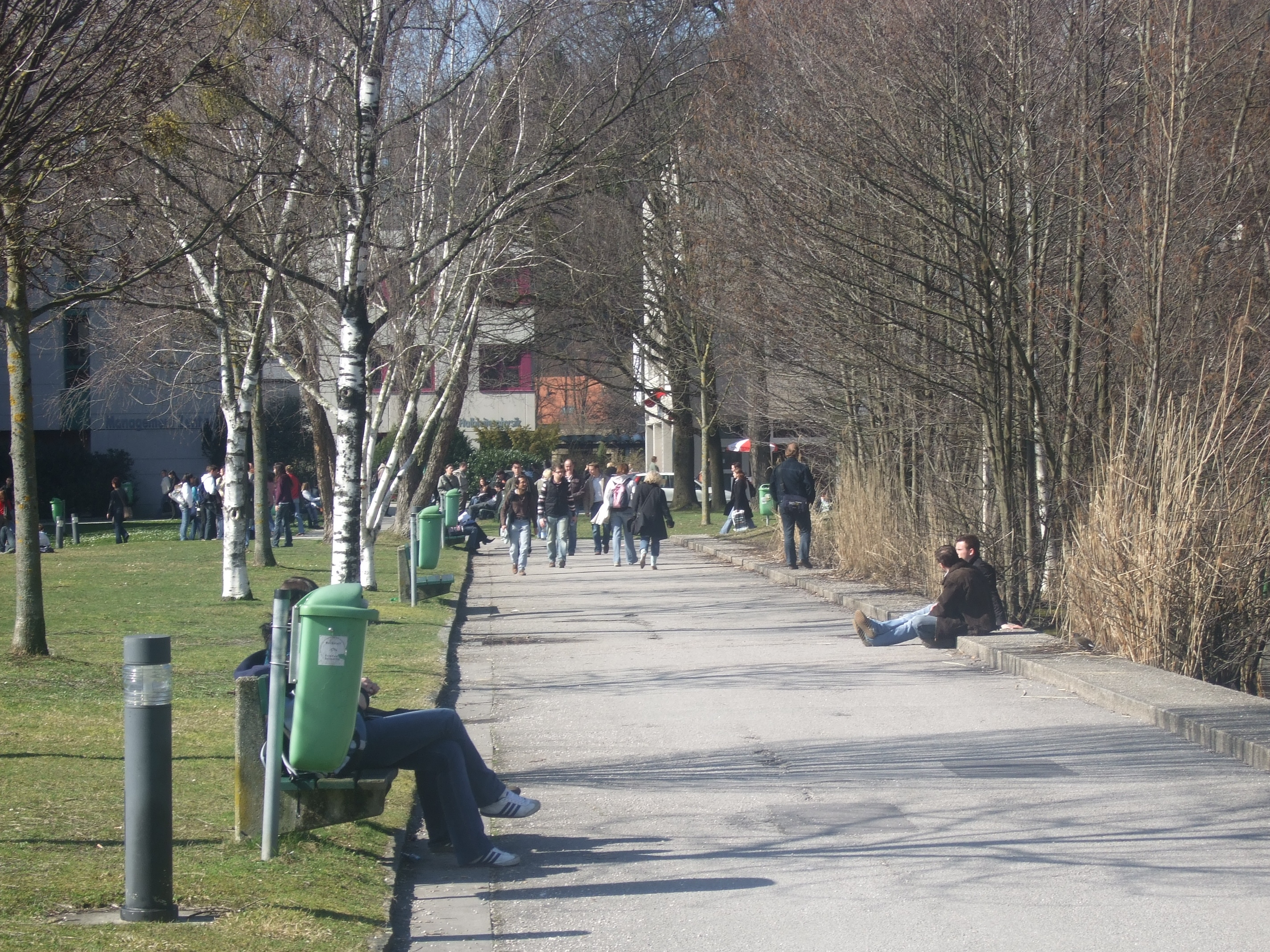 Students of the Johannes Kepler University of Linz on a walkway in front of the Management Center (Managementzentrum) and Semiconductor Physics Building (Halbleiterphysikgebäude)